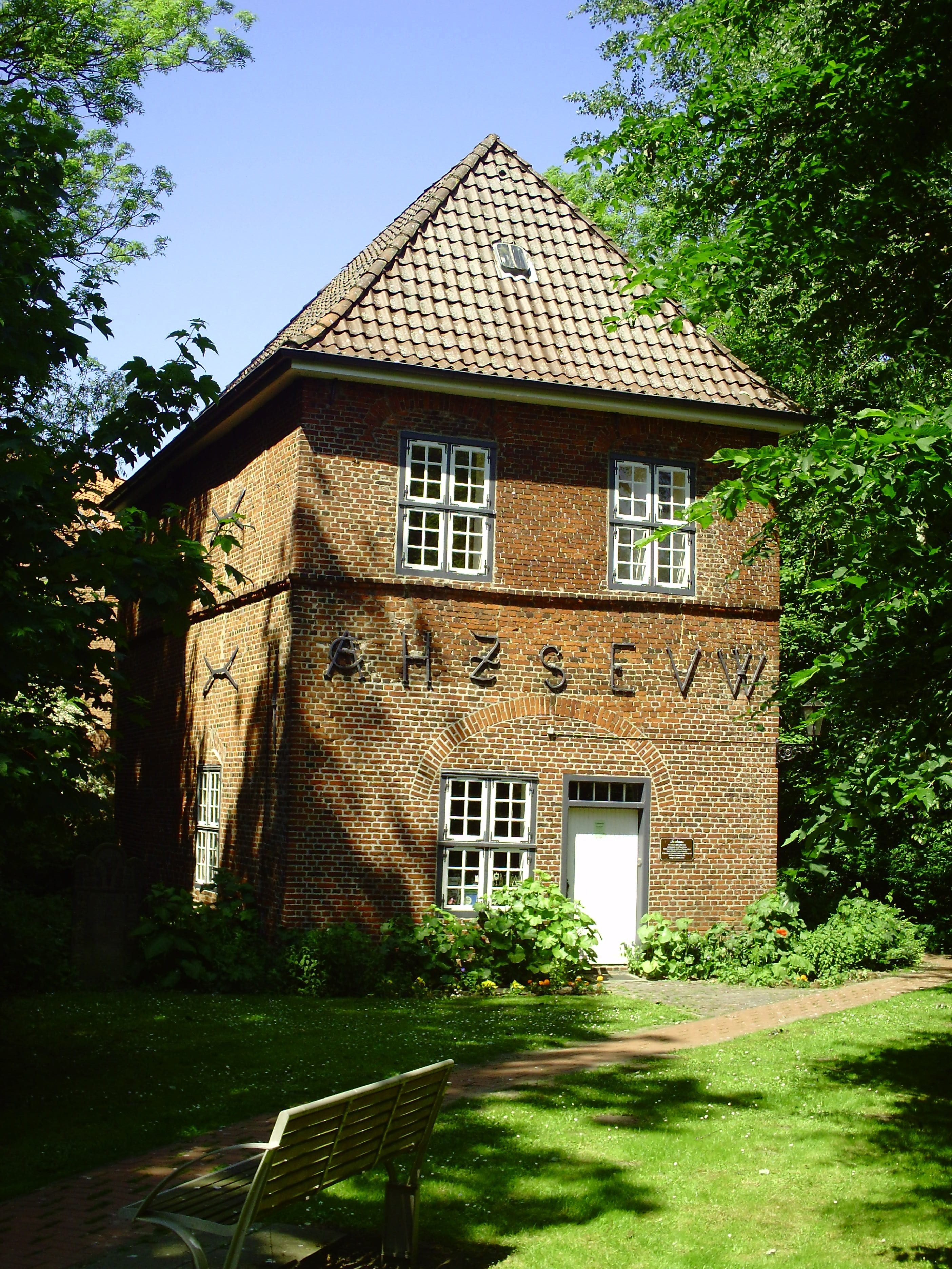 The Torhaus in Otterndorf, Lower Saxony, Germany